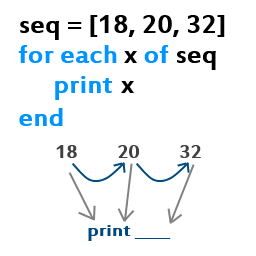 This is a for loop written in the programming language Mint. It iterates over all items in a list, in this case, labeled "seq" for sequence.